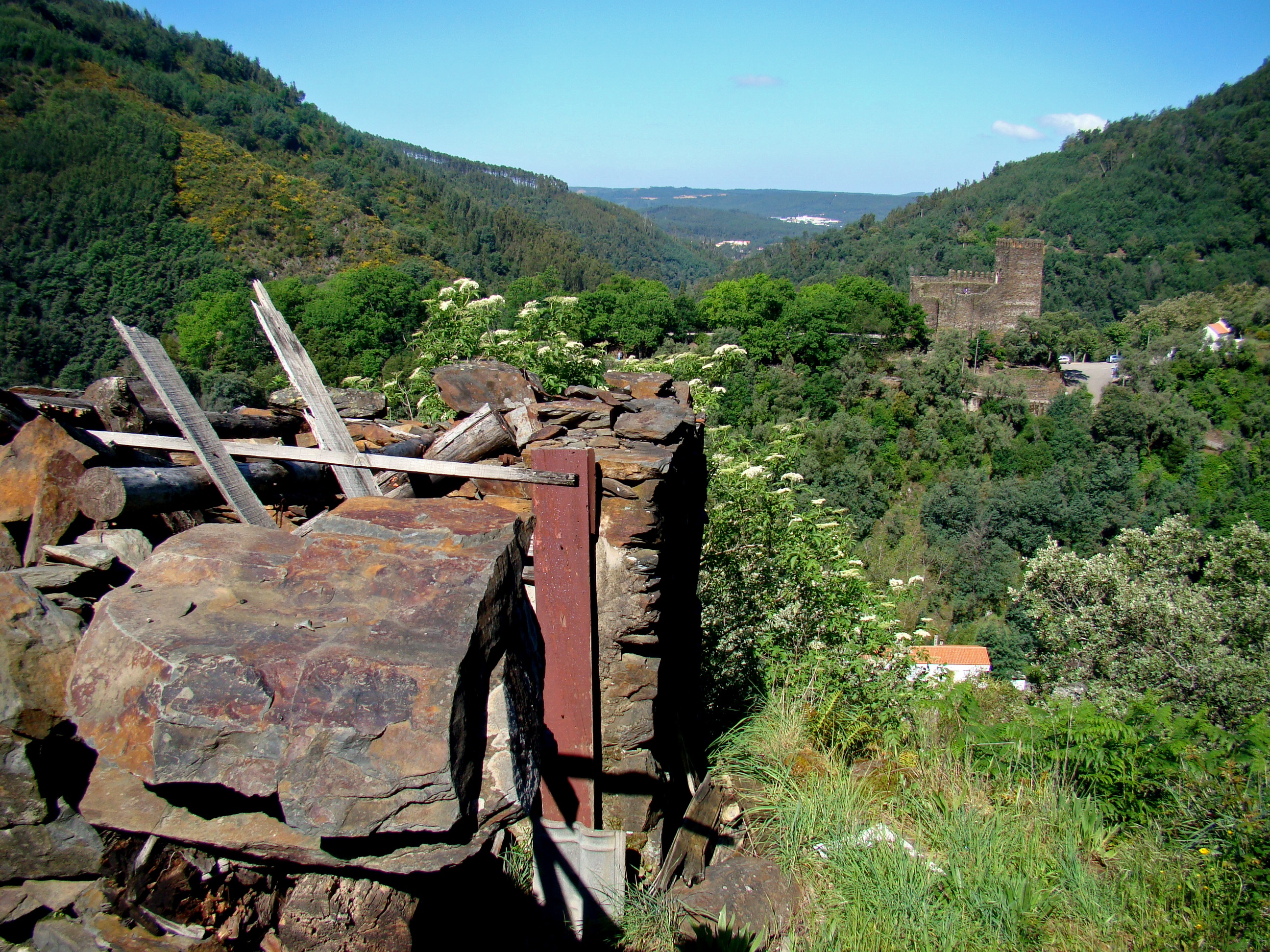 This file was uploaded for Wiki Loves Monuments in Portugal with the unique identifier 97005914.